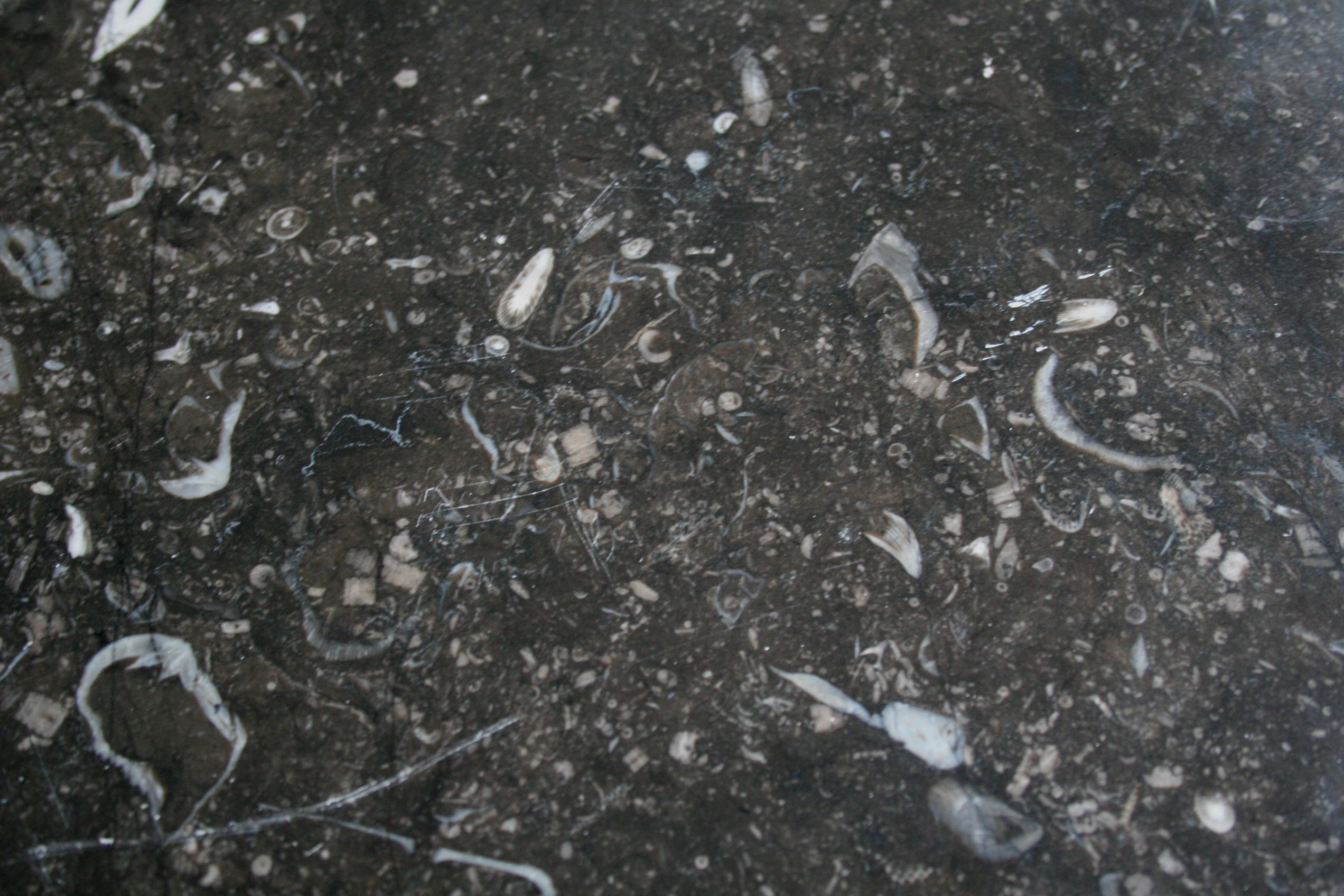 White fossils in a type of black limestone called "Belgian Granite" from Belgium. It is a sedimentary rock not granite. ca. 20x10cm. See German Wikipedia article [1] for more details.